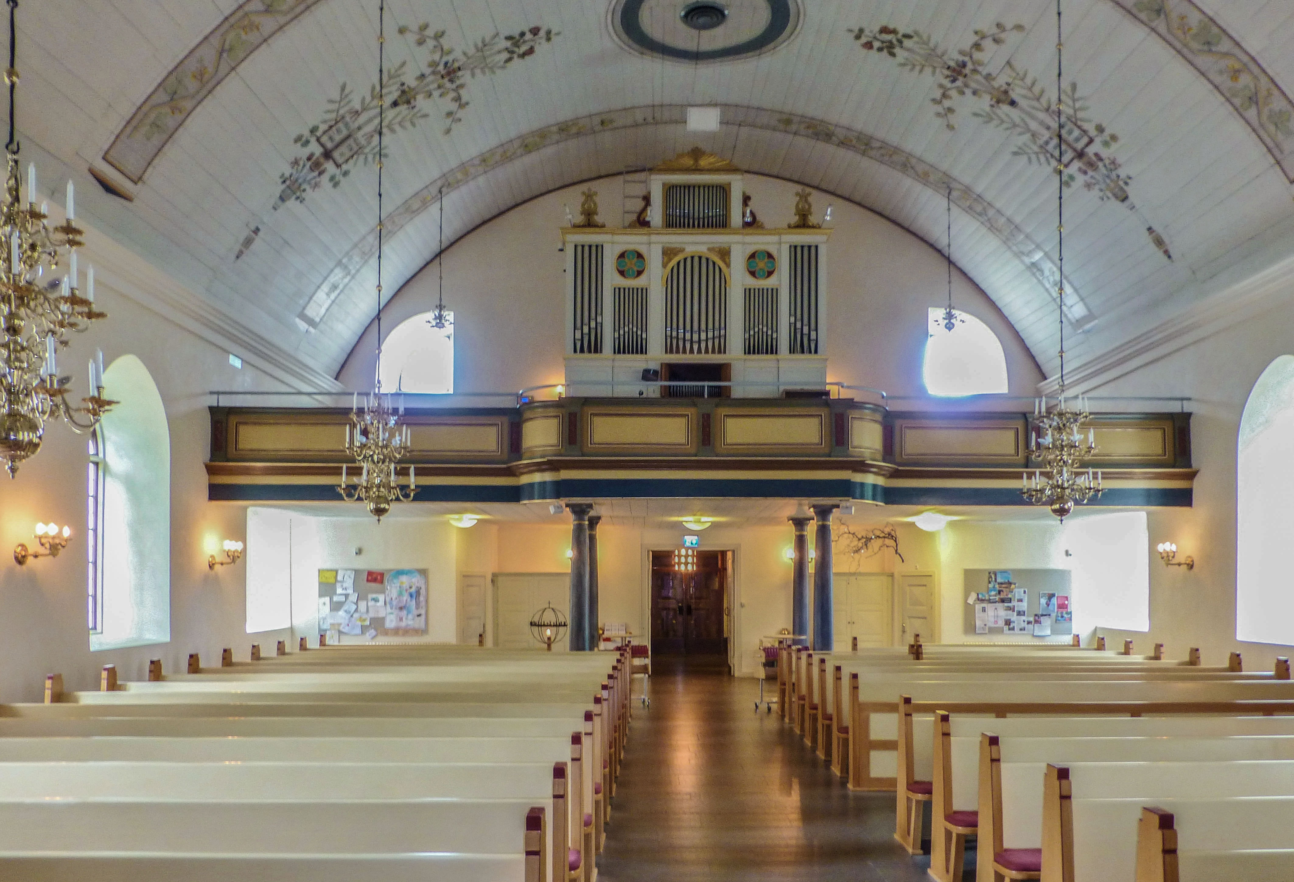 Ljungby Church.Kronobergs Country.The nave with organ loft.